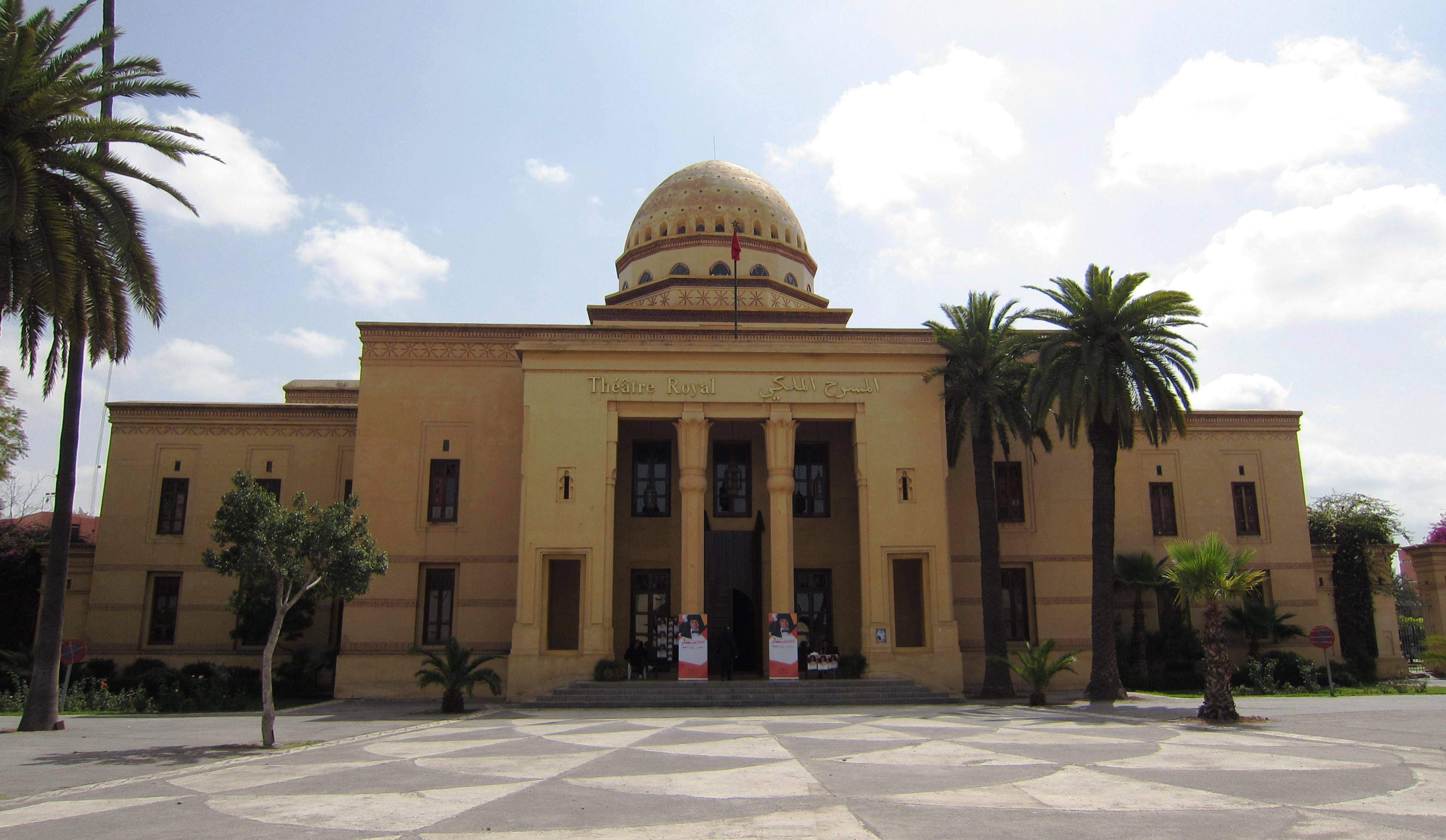 Théâtre Royal, Marrakesch